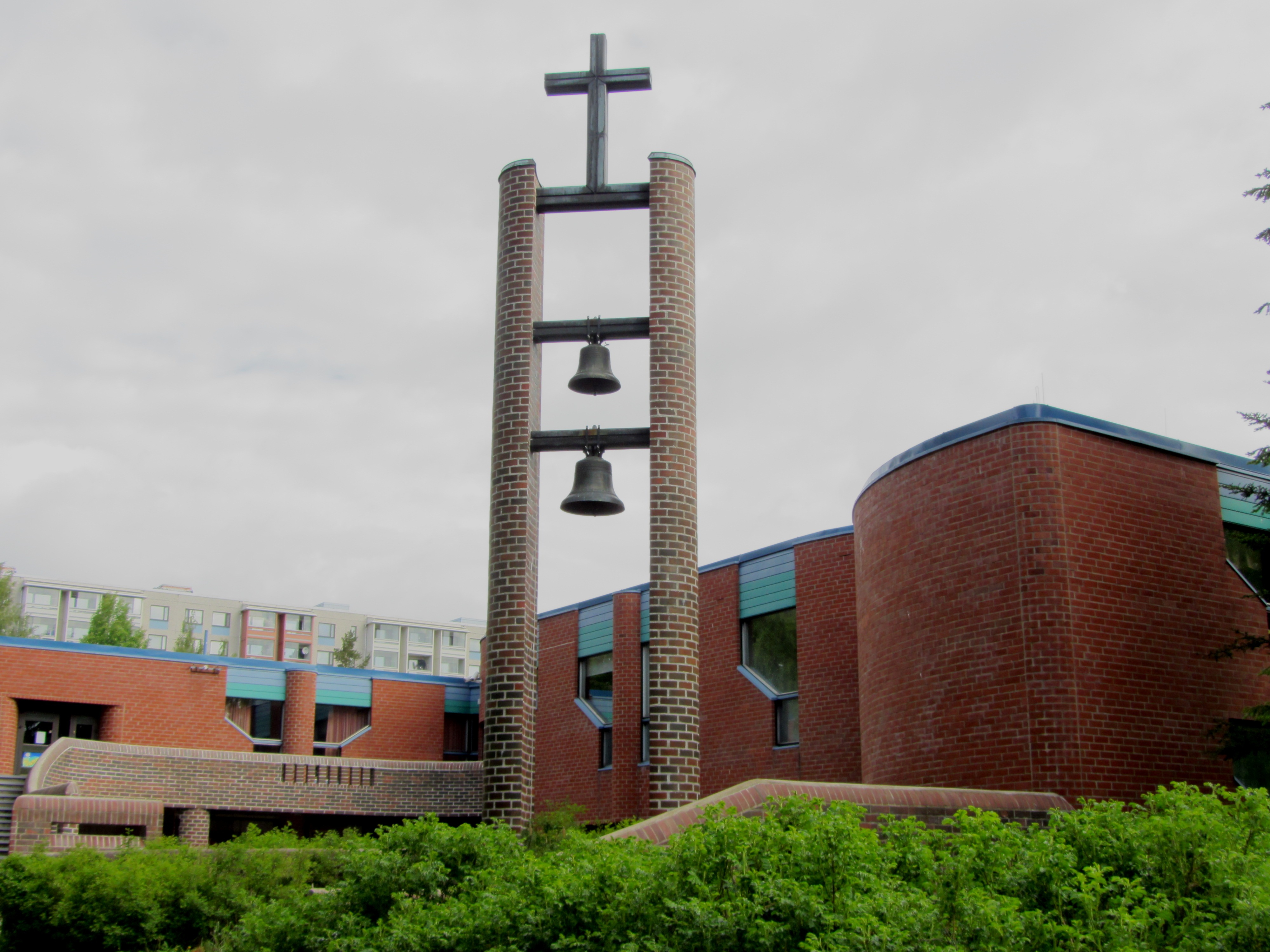 The Bell tower of Hervanta Church in Tampere, Finland